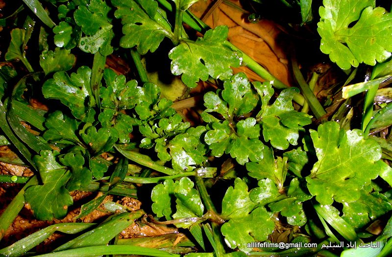 نبات برّي سوري يؤكل